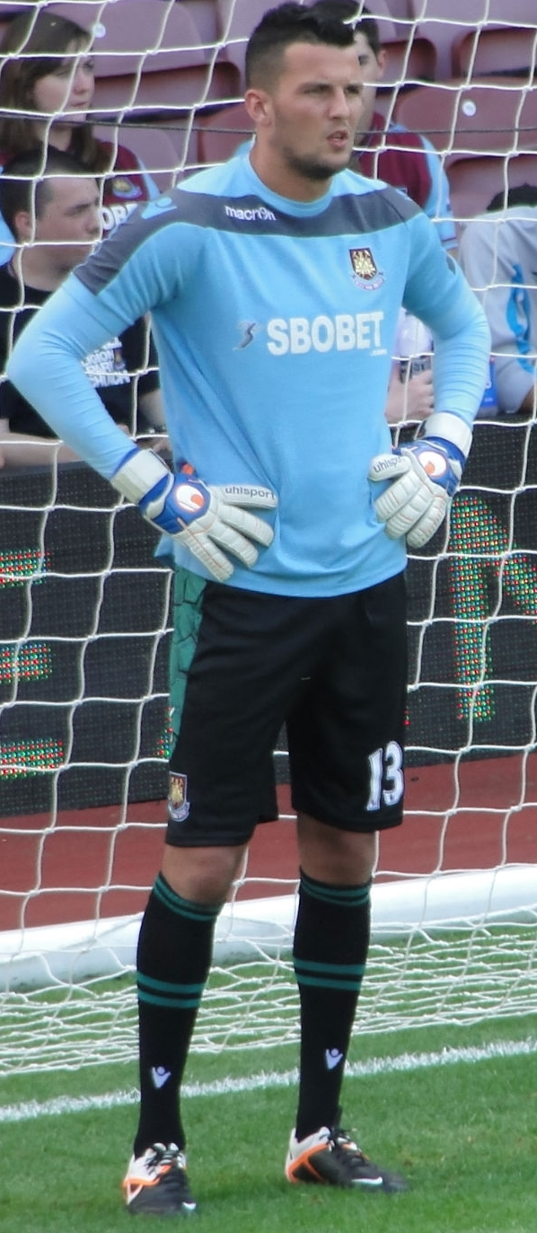 West Ham United goalkeeper, Stephen Henderson, warming-up before their game against Aston Villa at The Boleyn Ground, August 2012